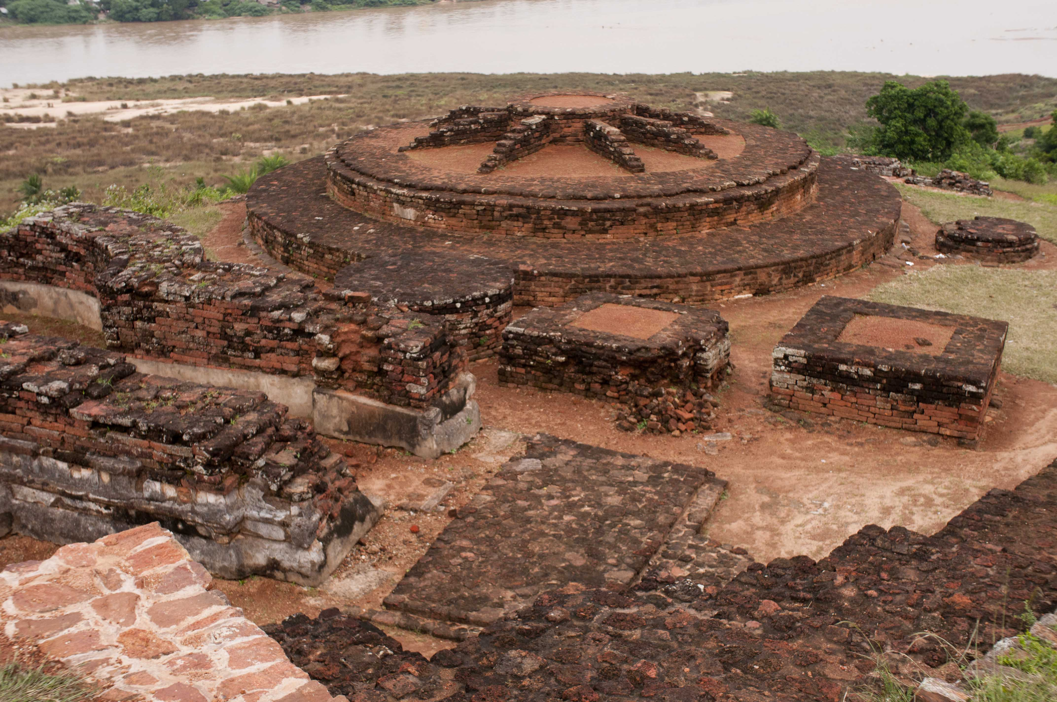 Buddhist remains: 1) Six Images 2) Three images and some more images on the hill 3) One image 4) Three images